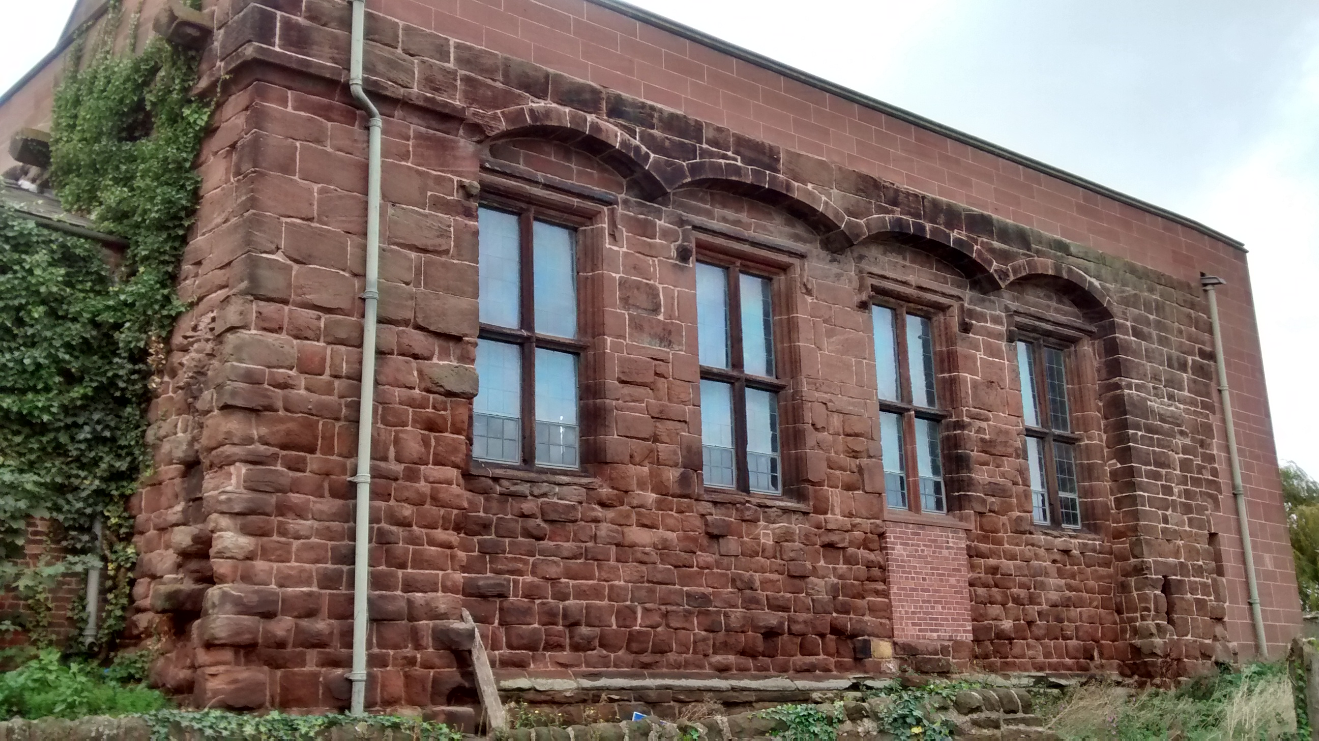 Ince Manor or Ince Grange is a former monastic grange in the village of Ince in Cheshire, England